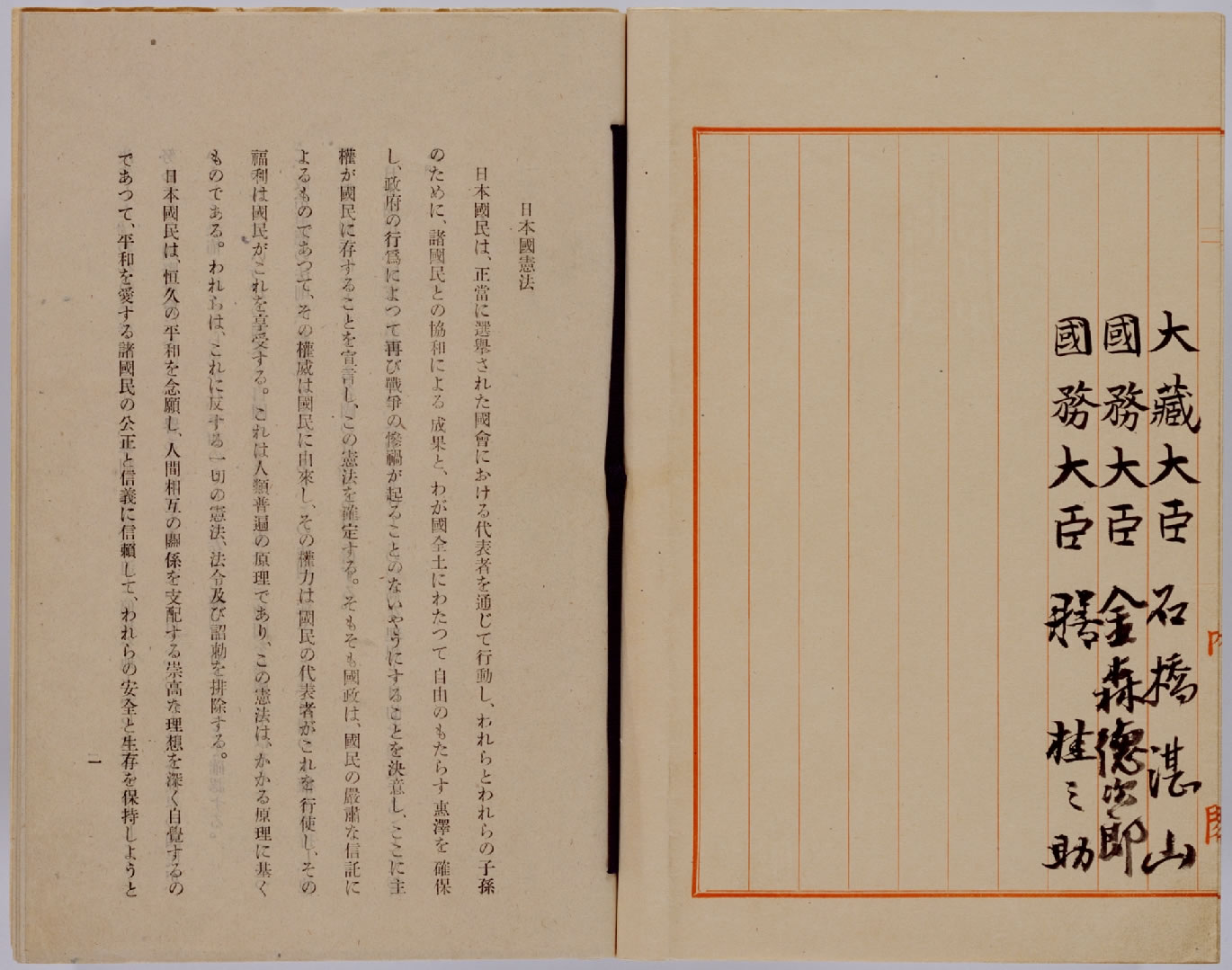 The original of "The Constitution of the State of Japan" This constitution was promulgated in 1946, and it was taken effect in 1947.